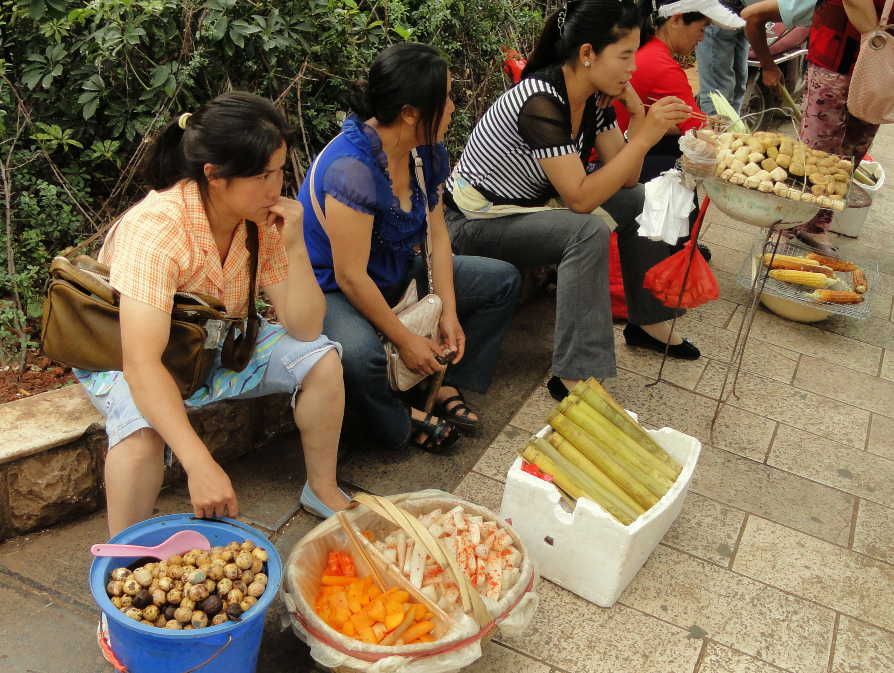 Example of food in Kunming, Yunnan, China.